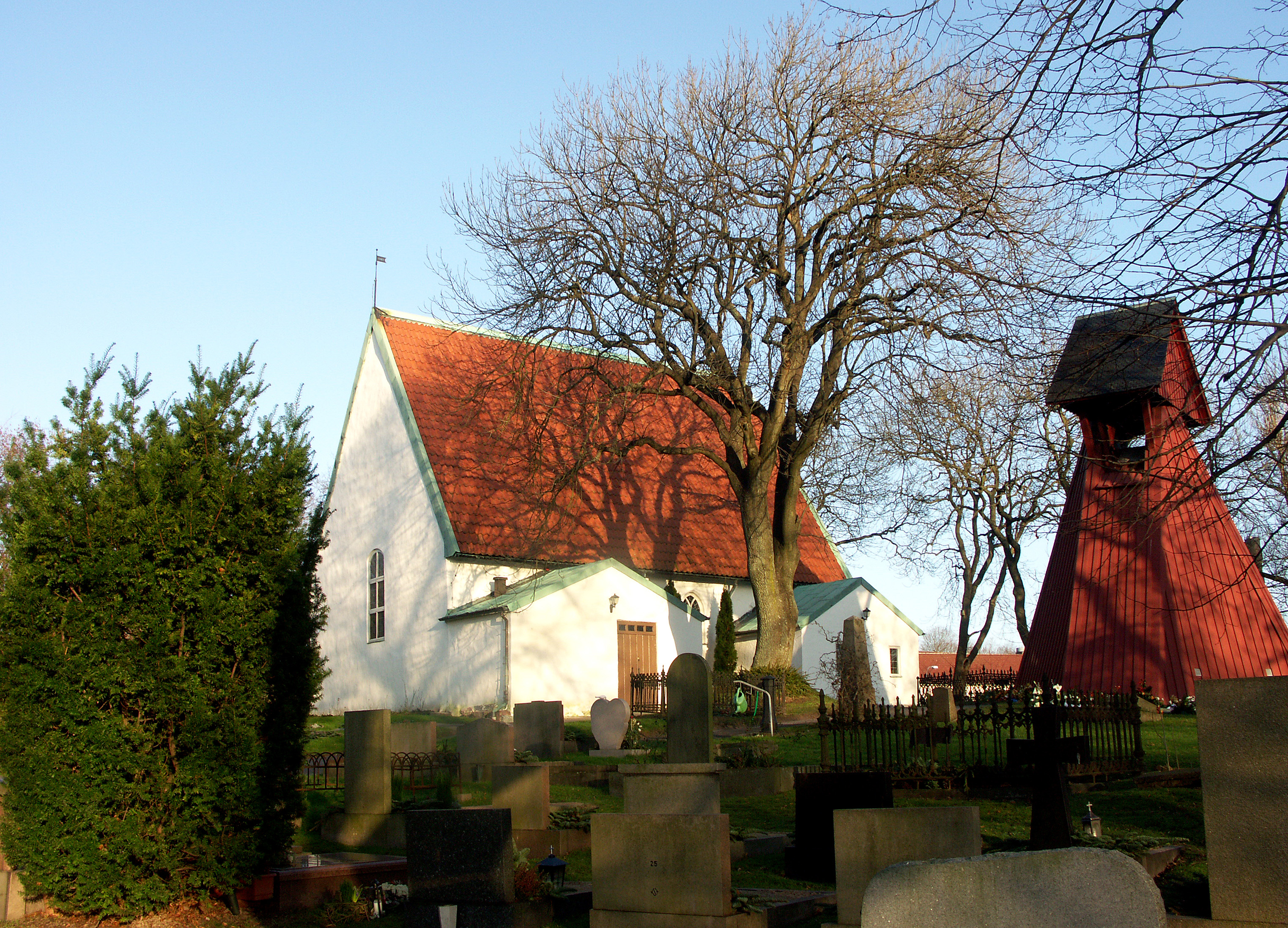 Lundby gamla kyrka, "Old Church of Lundby", in Gothenburg, Sweden